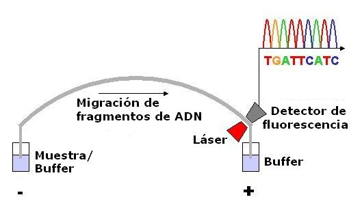 Created by Abizar Lakdawalla.